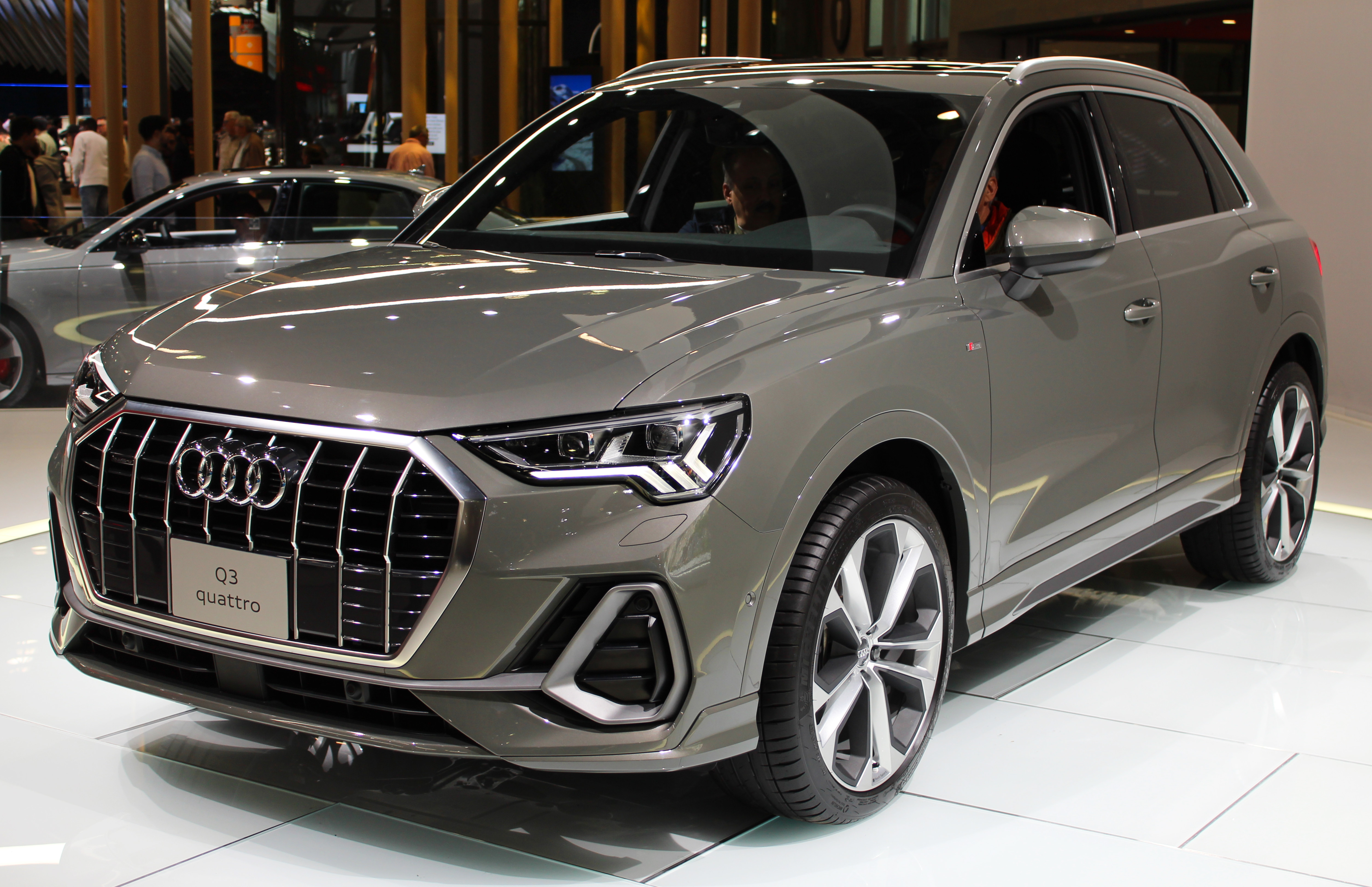 A 2019 Audi Q3 quattro S-Line photographed during the 2019 New York International Auto Show, in Hudson Yards, Manhattan, NYC